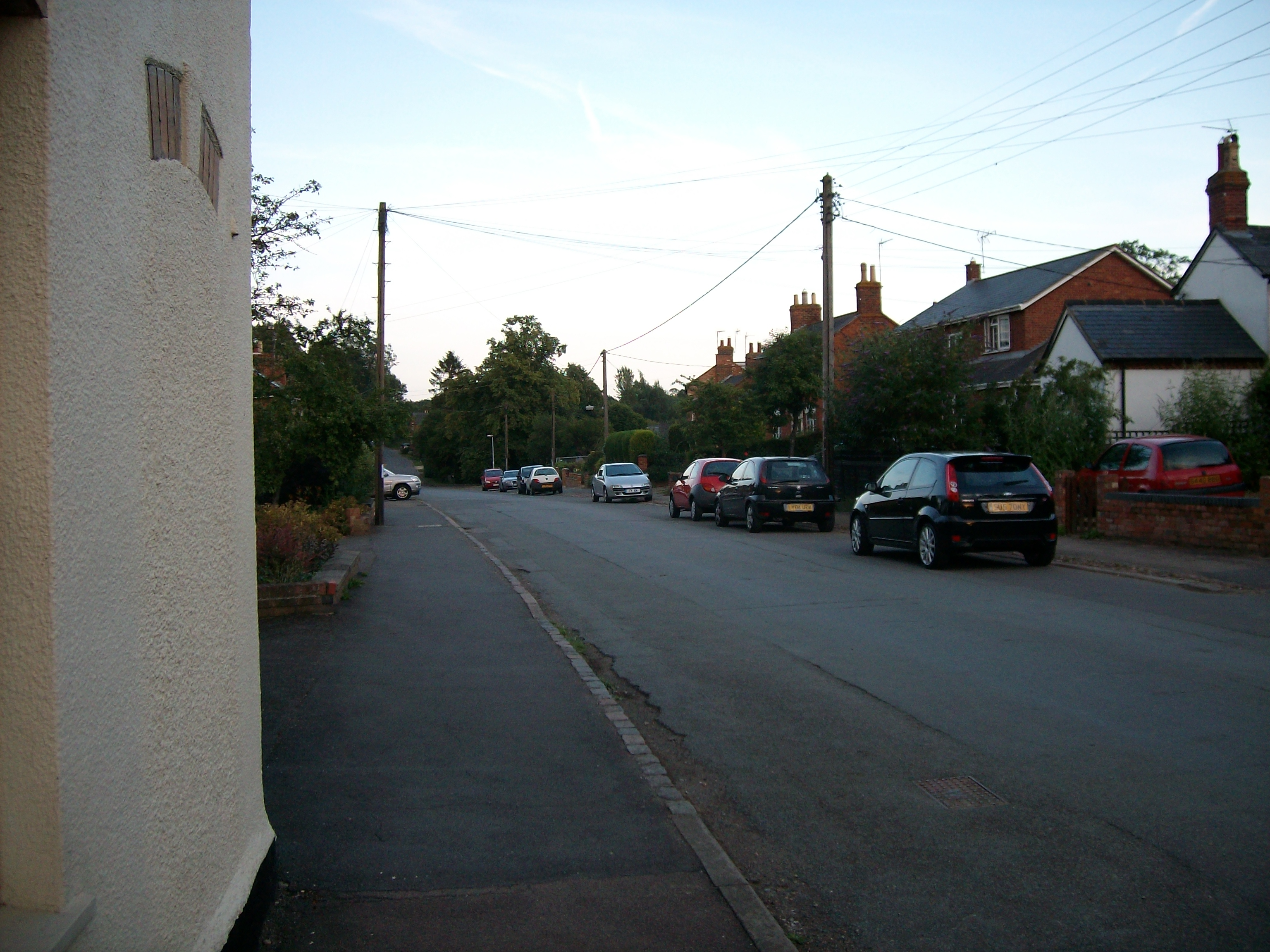 Yelvertoft High Street. Walking through here in 2009, I found that a large number of houses, and businesses such as the Post Office and pub, were adorned with signs saying 'No to wind farms'. I concluded that Yelvertoft was an insular and snobbish little place based on my short time there; the epitome of Middle England.